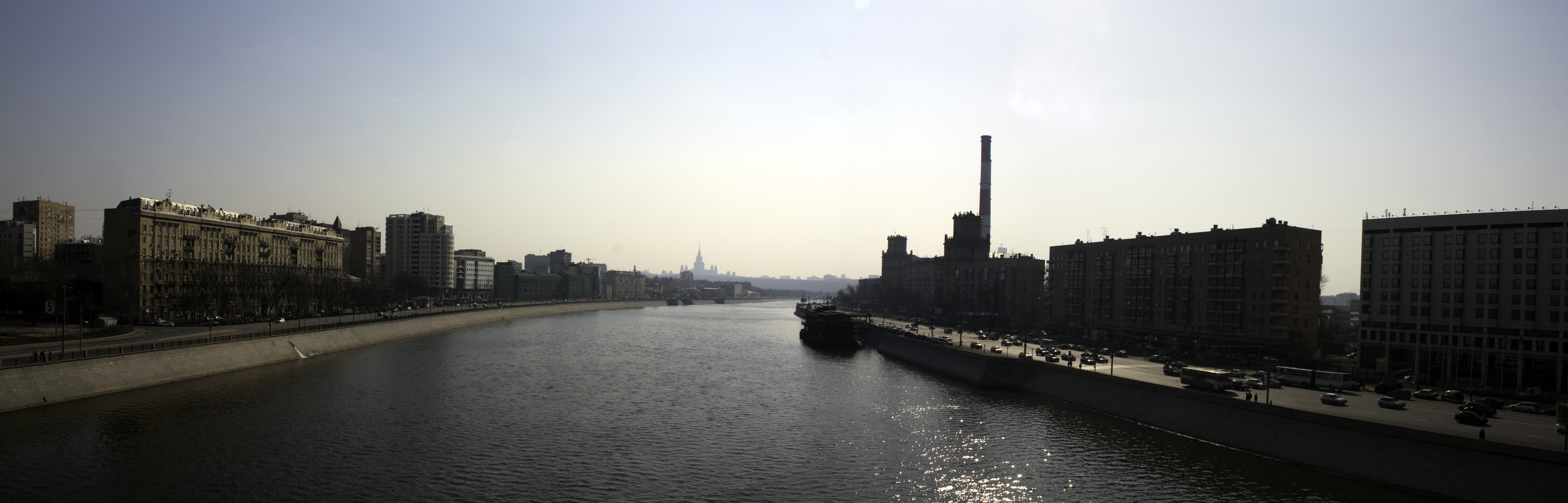 Bridge Bogdan Khmelnitsky